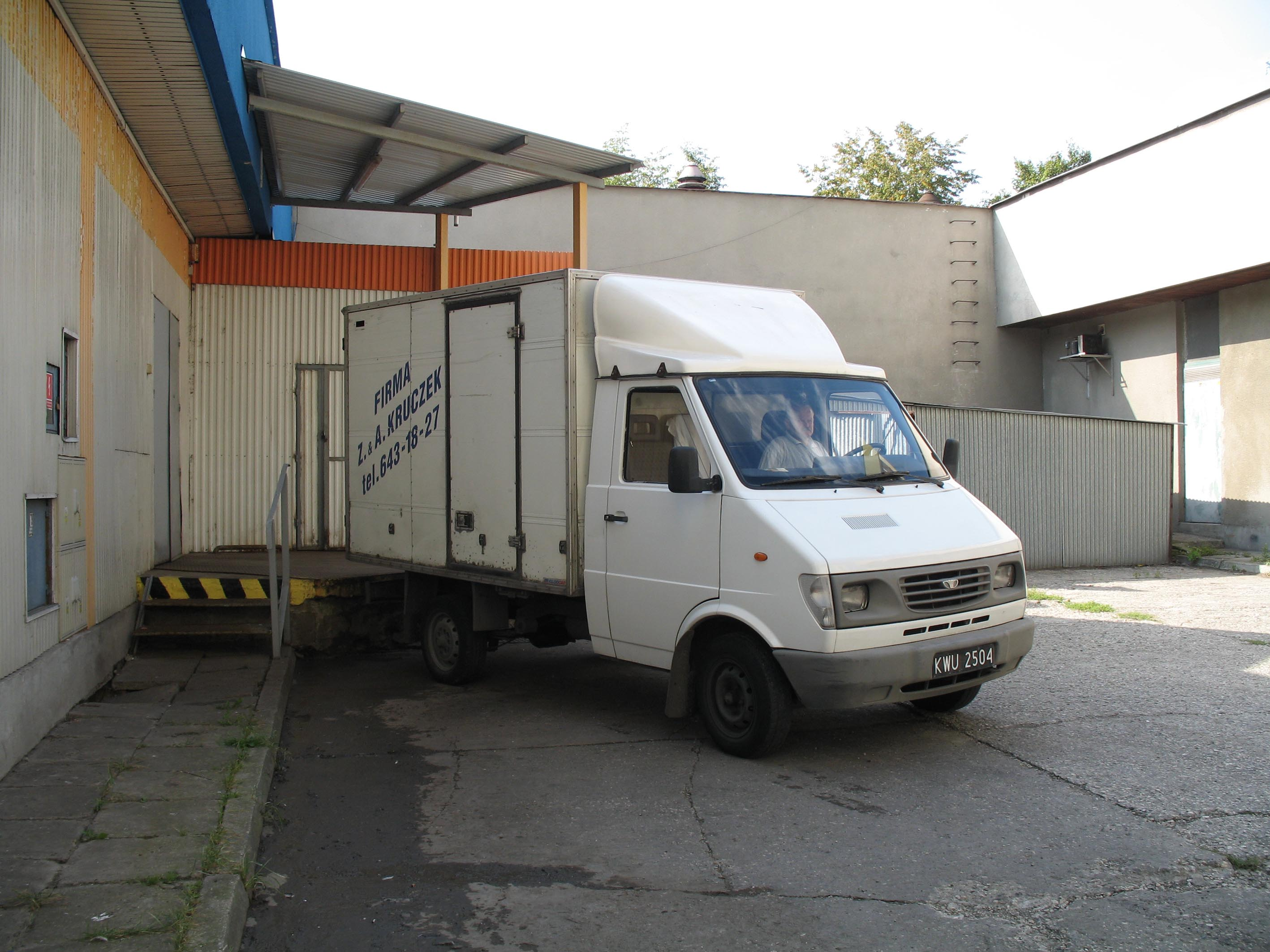 Daewoo Lublin 3 in Krakow, Poland.